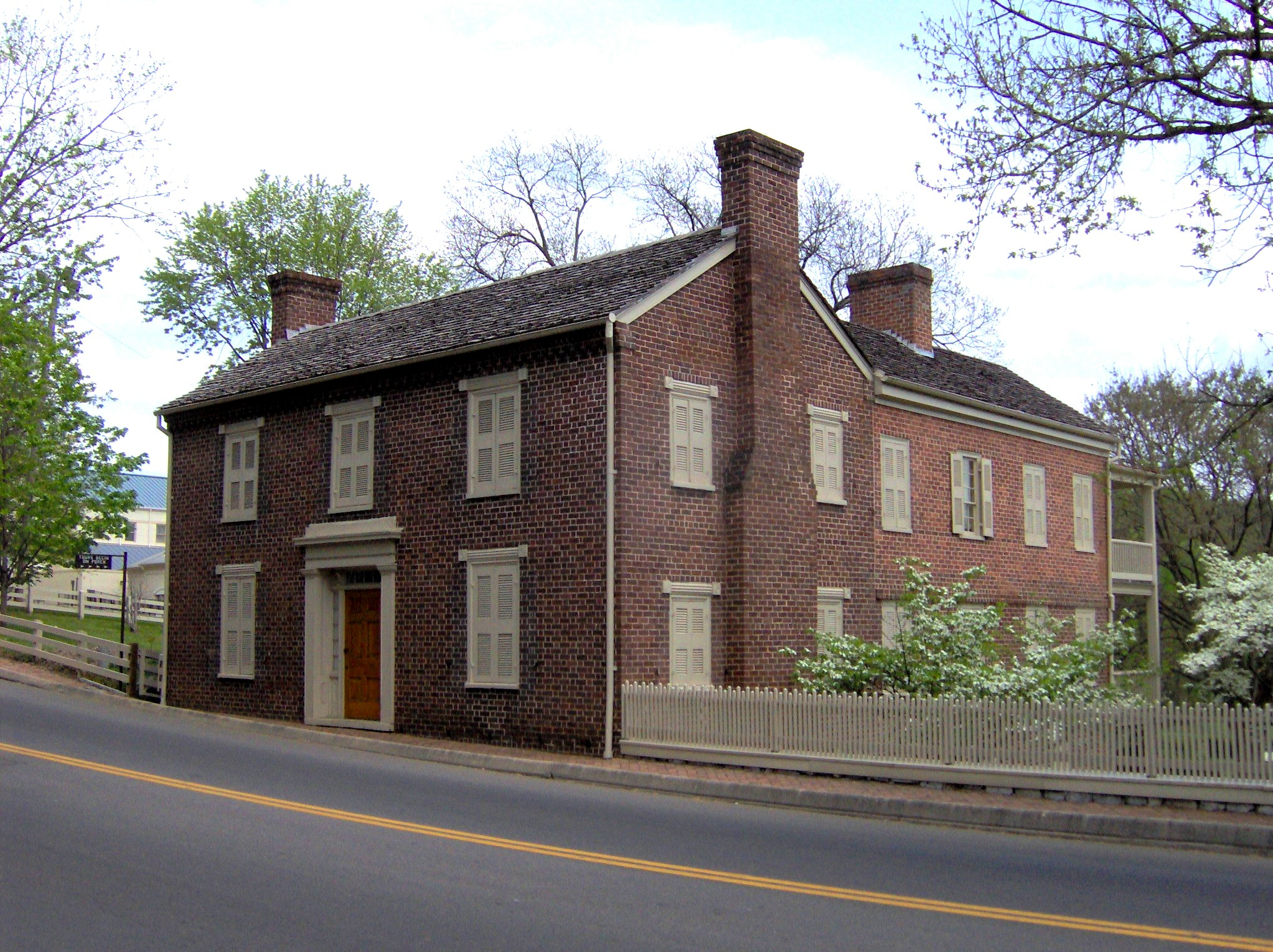 Andrew Johnson House on Main Street in Greeneville, Tennessee, in the southeastern United States. Andrew Johnson, the 17th president of the United States, lived here from 1851-1875. The house is now part of the Andrew Johnson National Historic Site.